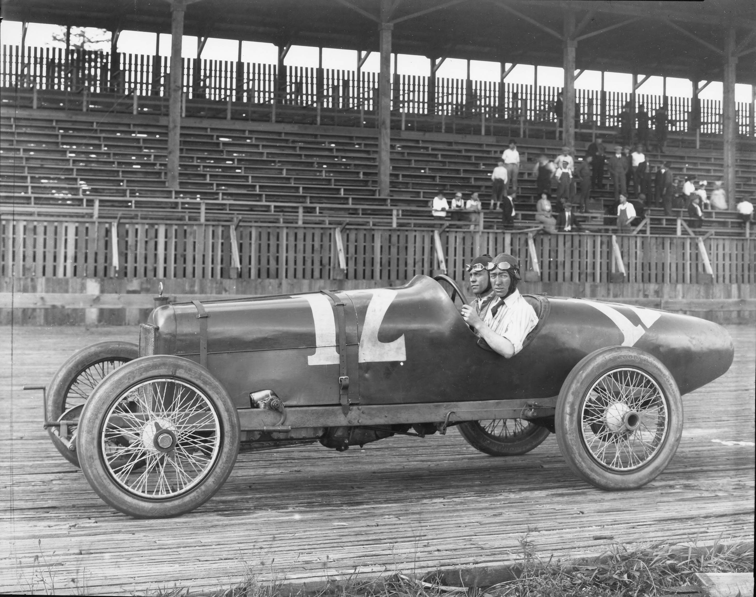 Jimmy Murphy at the Tacoma Speedway in his race car #12, believed to be a Duesenberg, circa 1920. Accompanying him is his riding mechanic, Ernie Olson. This was Mr. Murphy's first trip to the Pacific Northwest. He was considered a rising star with a top five finish at the Indianapolis 500 on Memorial Day and a second place finish on June 19th at the Uniontown, Pennsylvania 225-mile race. As part of the powerful Duesenberg team, he was able to learn, as well as compete with veteran drivers like Tommy Milton, Eddie O'Donnell and Eddie Miller. Jimmy Murphy finished sixth at the July 5th Tacoma Classic, an event won by his teammate, Tommy Milton. (Tacoma Sunday Ledger, 6-20-20, 3B-article; TDL 7-6-20, p.1+-results)